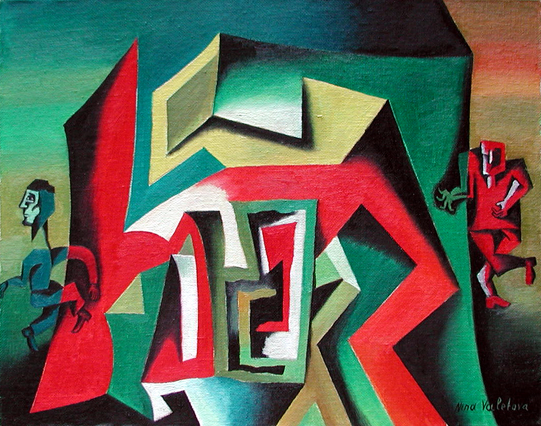 "Claustrophobia", 61.5 cm x 80 cm, oil on canvas, 2003